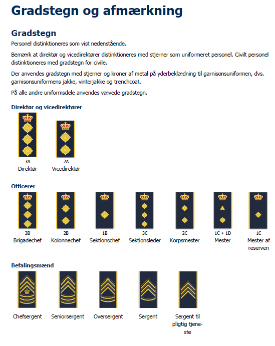 New rank insignia for Danish Emergency Management Agency sworn staff.